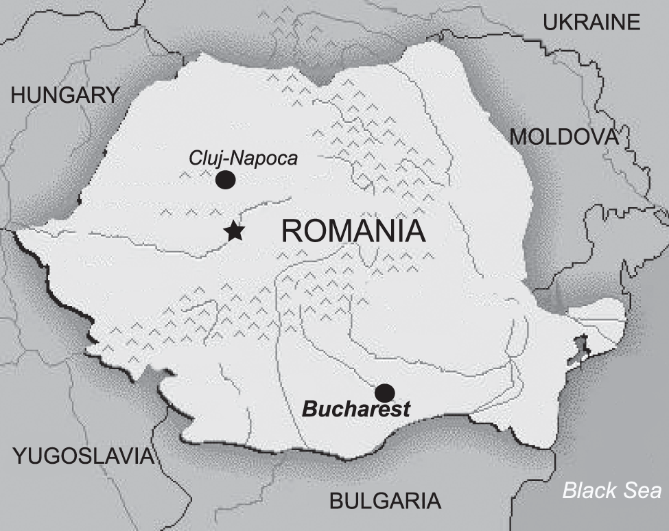 Figure 1. Map of Romania (including the Transylvanian region) showing field area (star).